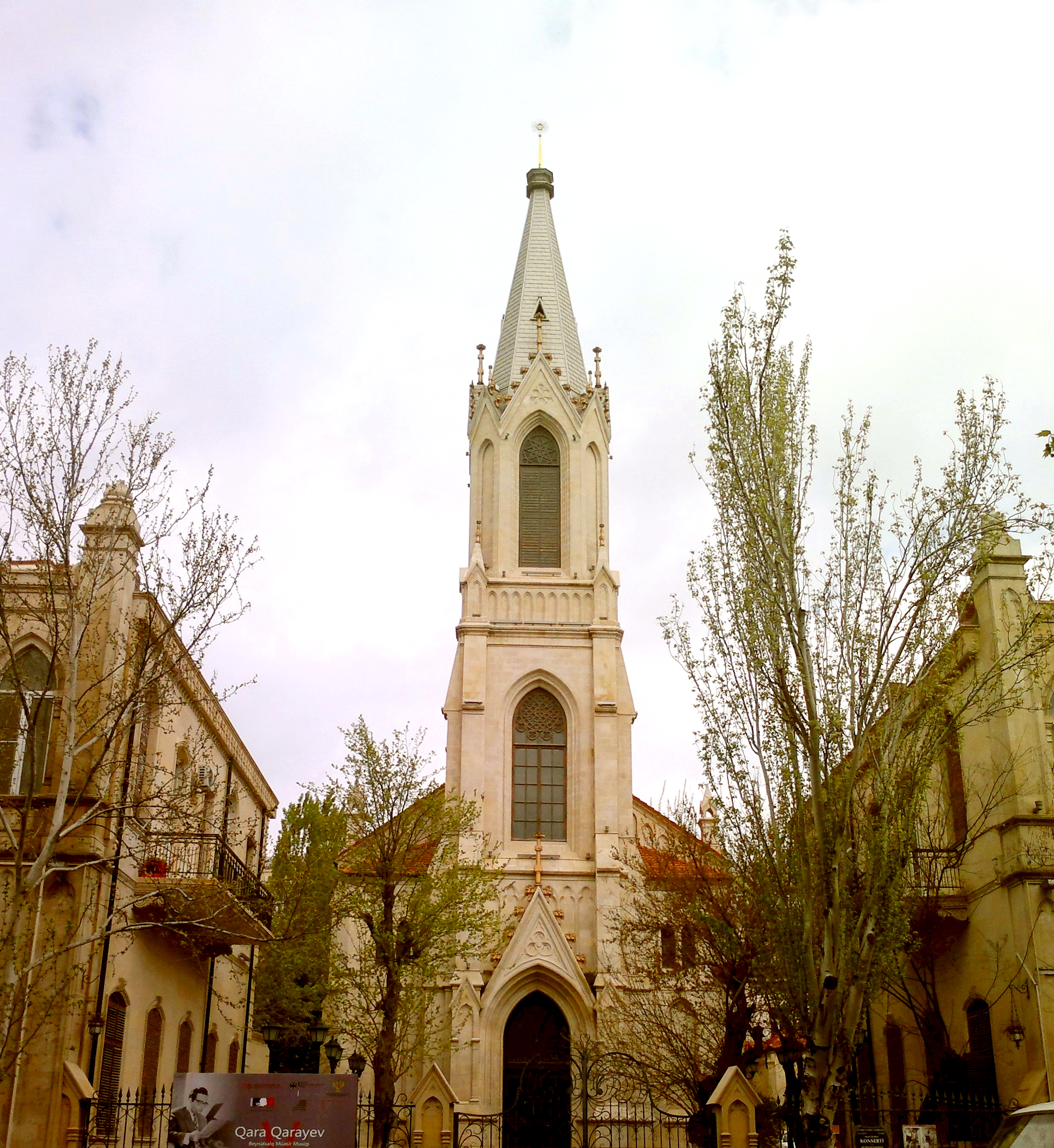 Lutheran Church in Baku, Azerbaijan. Built in 1897.